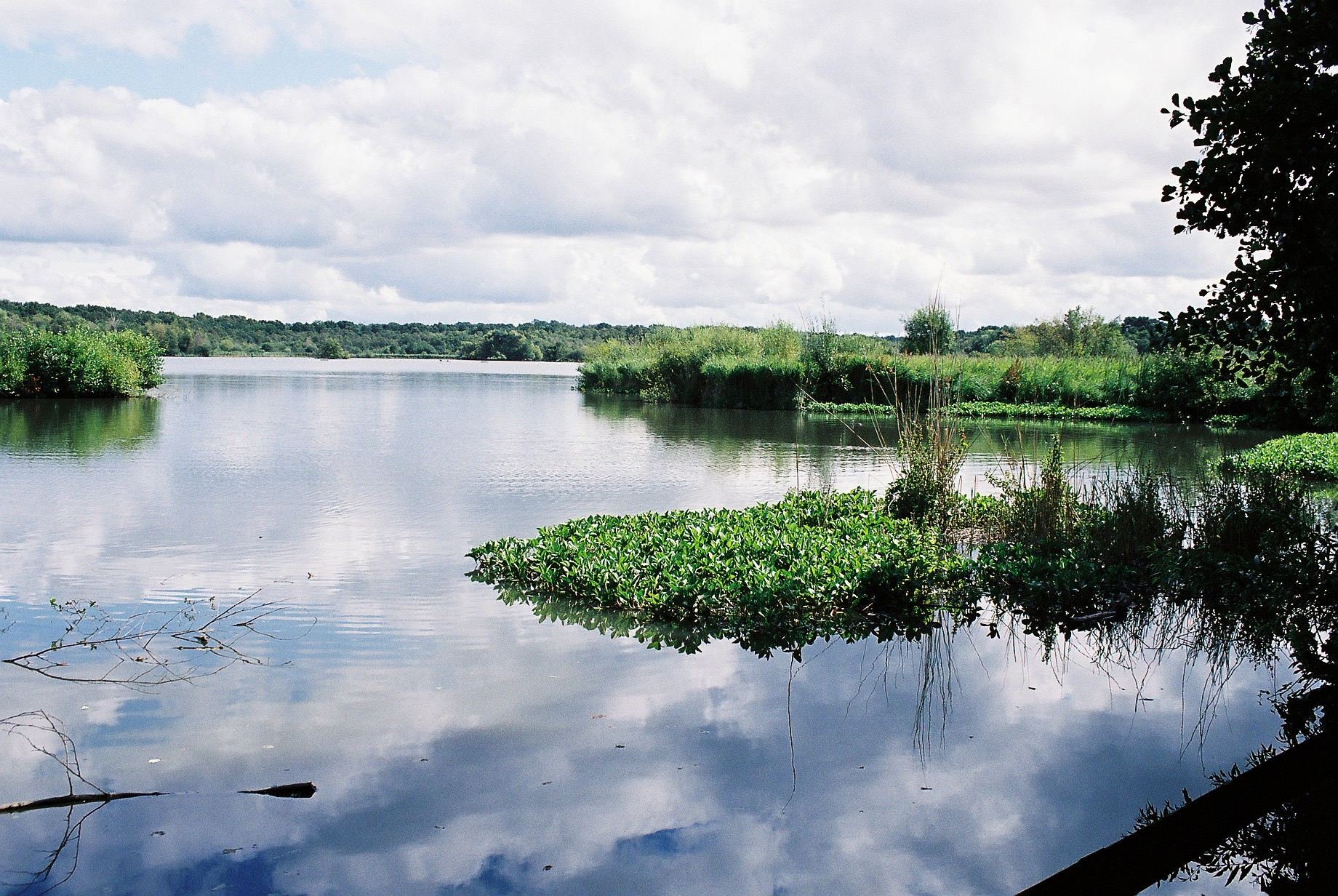 Hemelite Bay